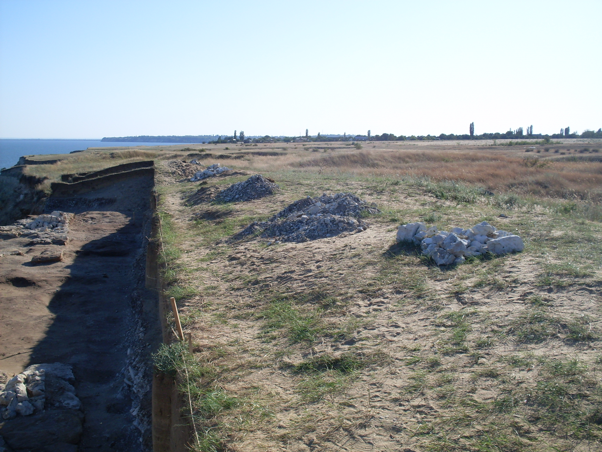 Khazar fortress at Sarkel (Belaya Vyezha, Russia) Excavations 2009